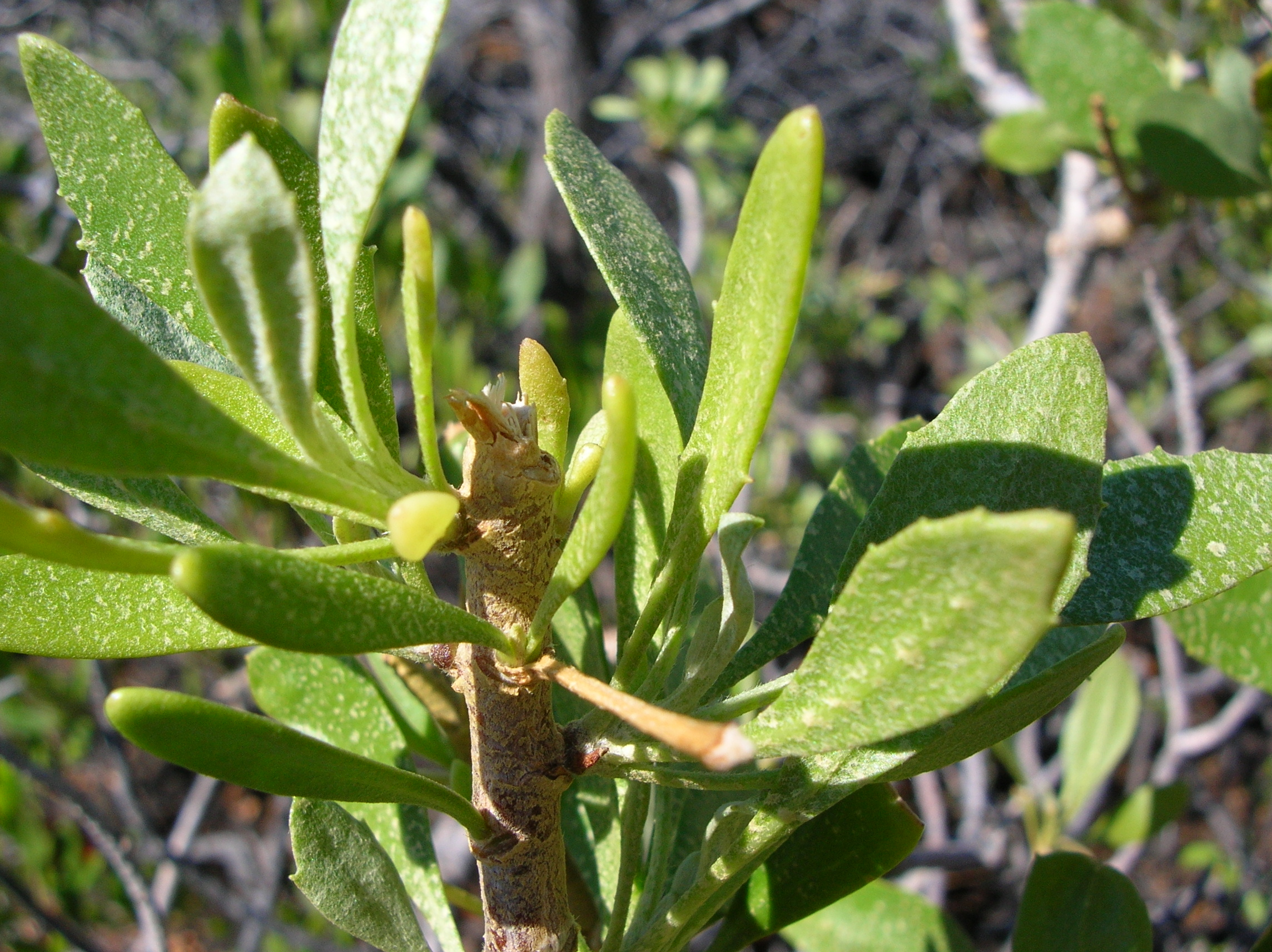 Scaevola gaudichaudii (browsed tip). Location: Maui, LaPerouse